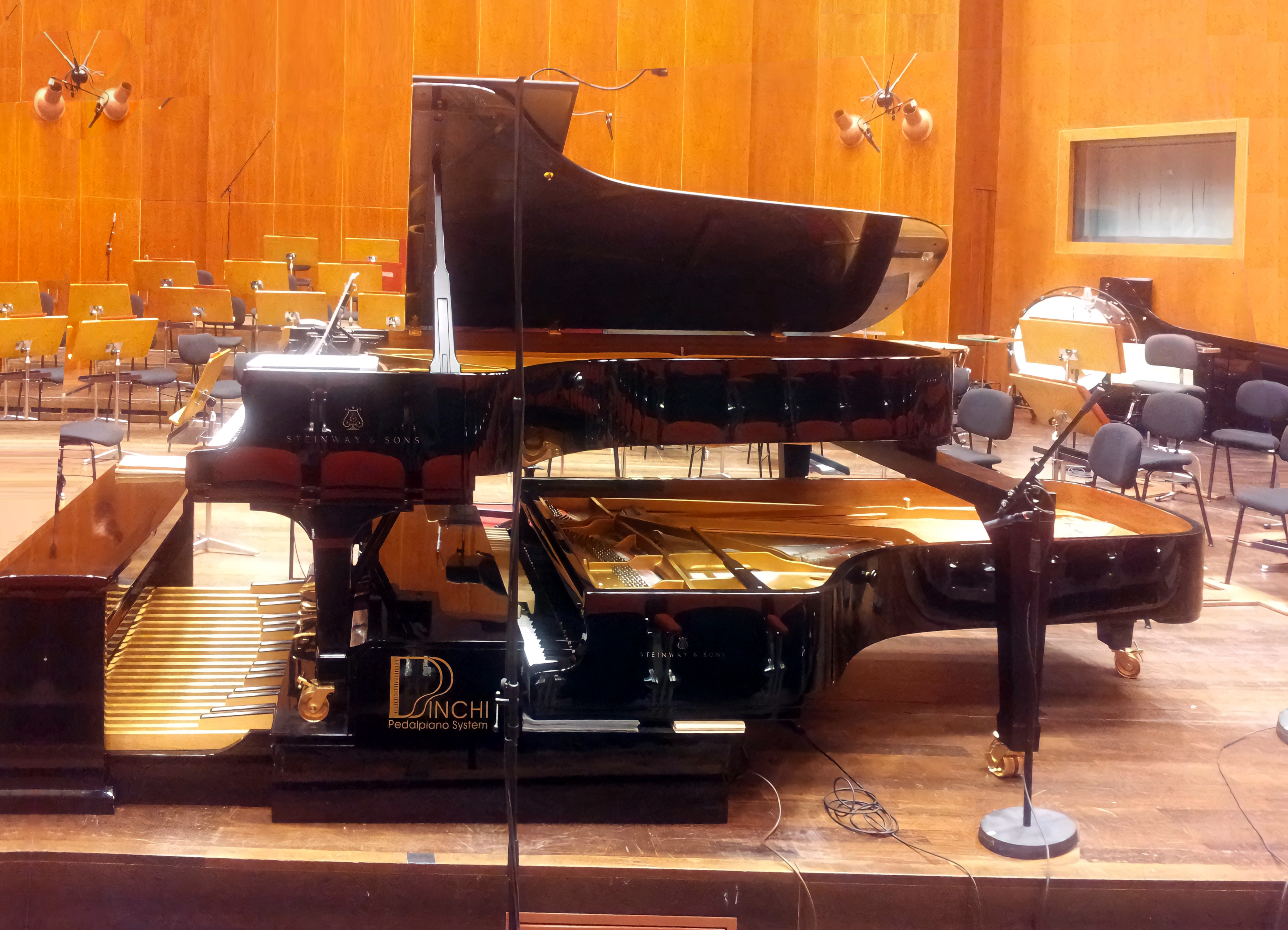 Pinchi-Pedalpiano-System with two Steinway D pianos in Lugano, Auditorium Stelio Molo, October 2012.